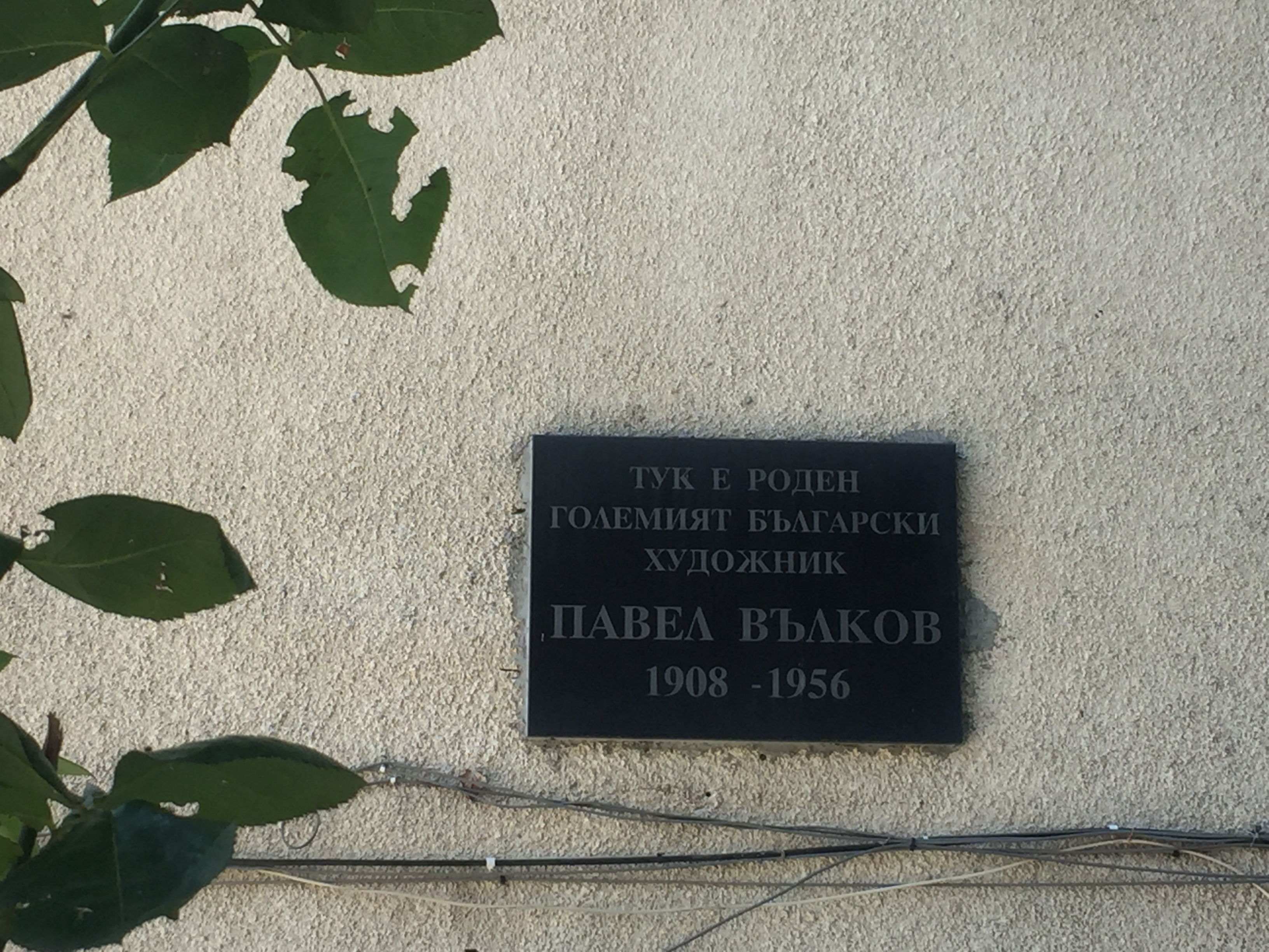 This is the memory plate installed on a house in Burgas, Bulgaria where the original house of Pavel Valkov used to be. The original house was destroyed but the plate marks the place. The quality is not the best - I took the picture using my phone.